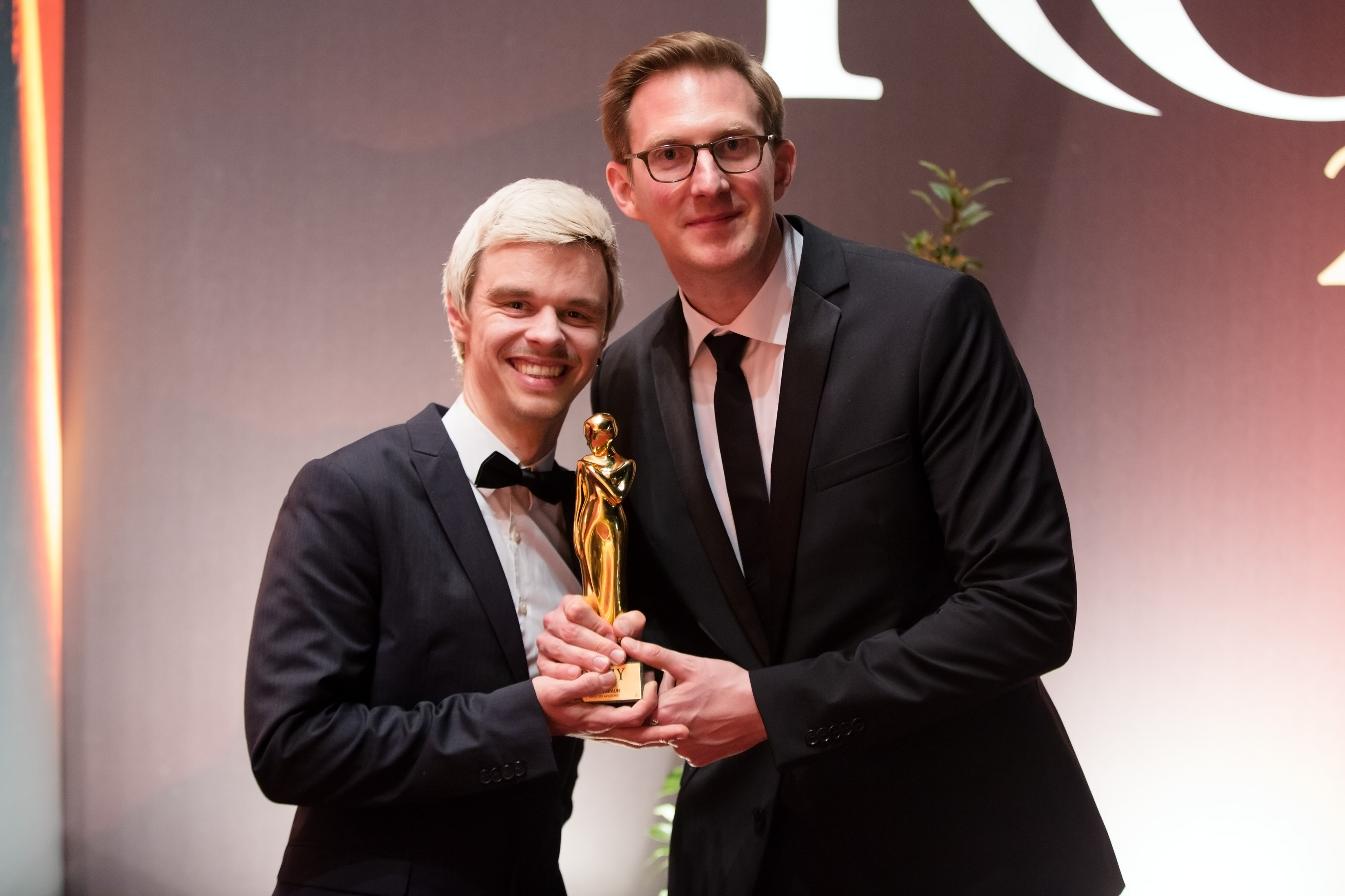 Maurice Hübner (l.) and Uwe Urbas on the red carpet of the Romy TV awards 2016 at Hofburg Palace in Vienna, Austria.